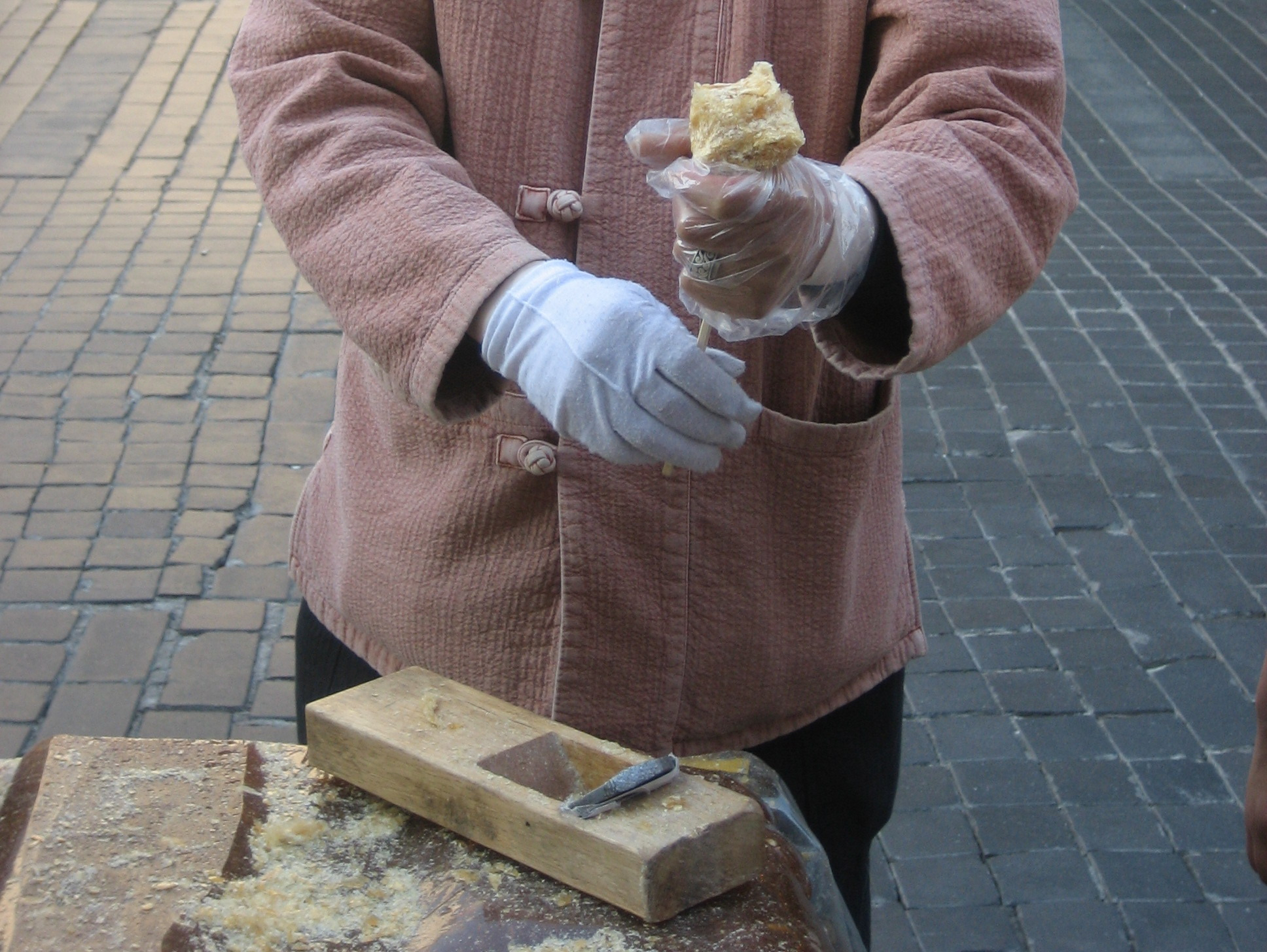 Making yeot, Korean traditional candy